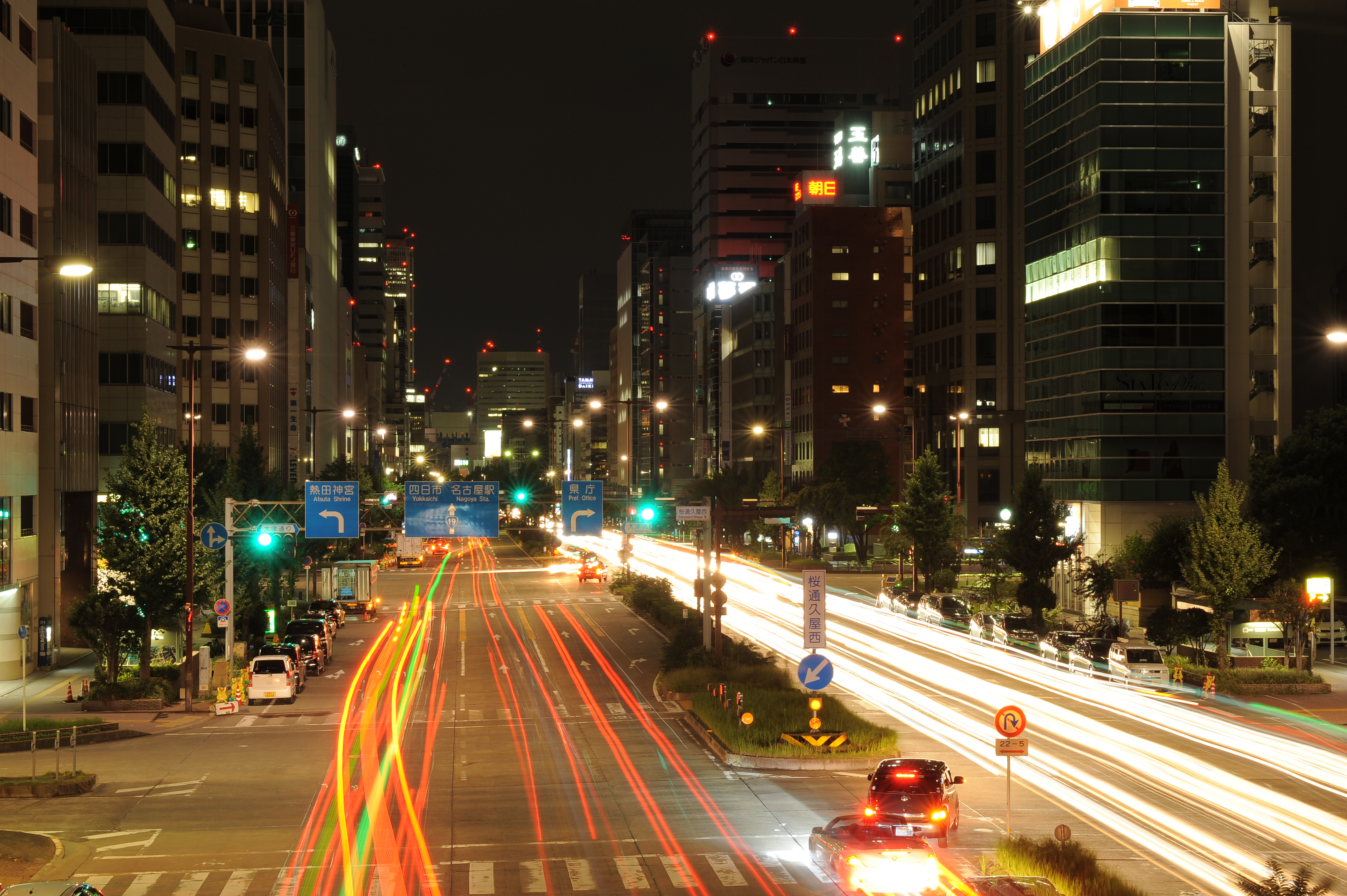 Route 19 Sakura dori, Nishiki, Nagoya, Aichi